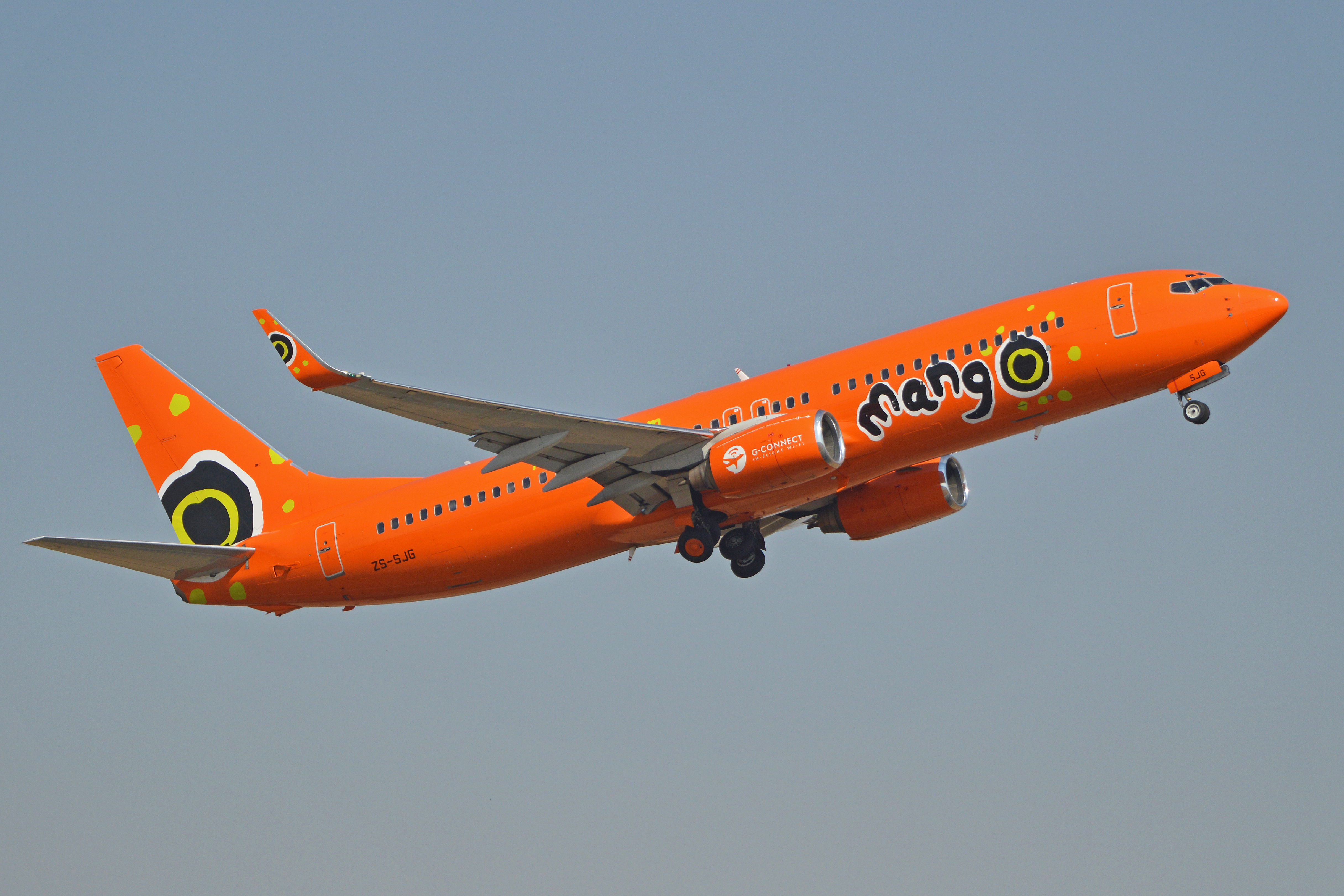 c/n 32353, l/n 711. Built in 2000 for South African Airways. Seen departing O.R. Tambo International Airport, Johannesburg, South Africa. 16-9-2014